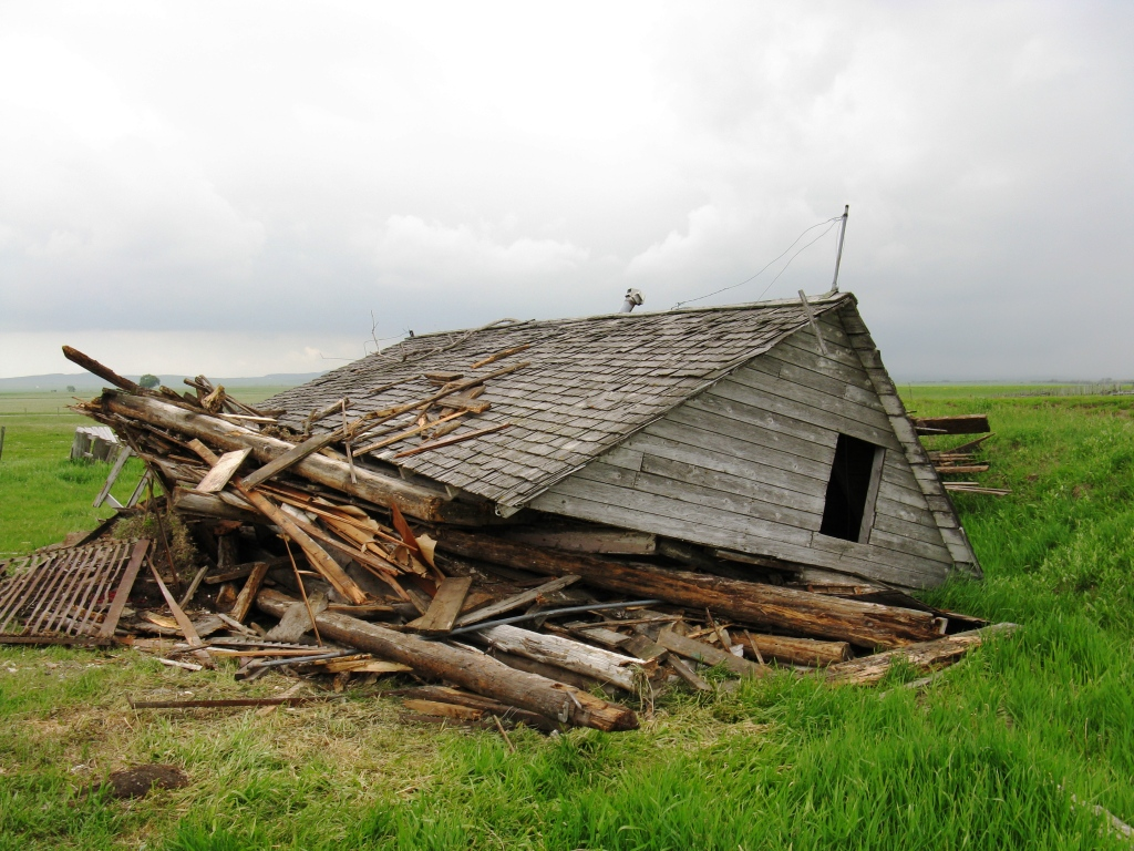 Old house of Steve Kapcsos, a Hungarian immigrant in Alberta, Canada.